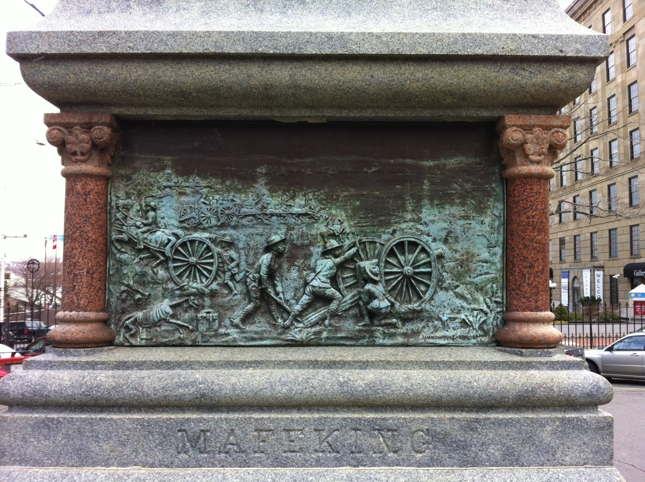 Mafeking Monument Province House Halifax NovaScotia by Hamilton MacCarthy